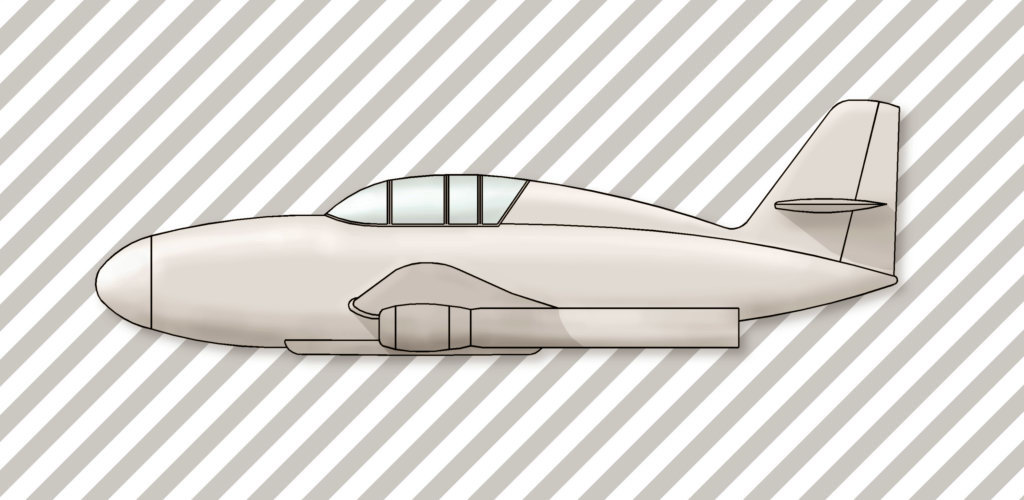 Messerschmitt Me 328 sketch